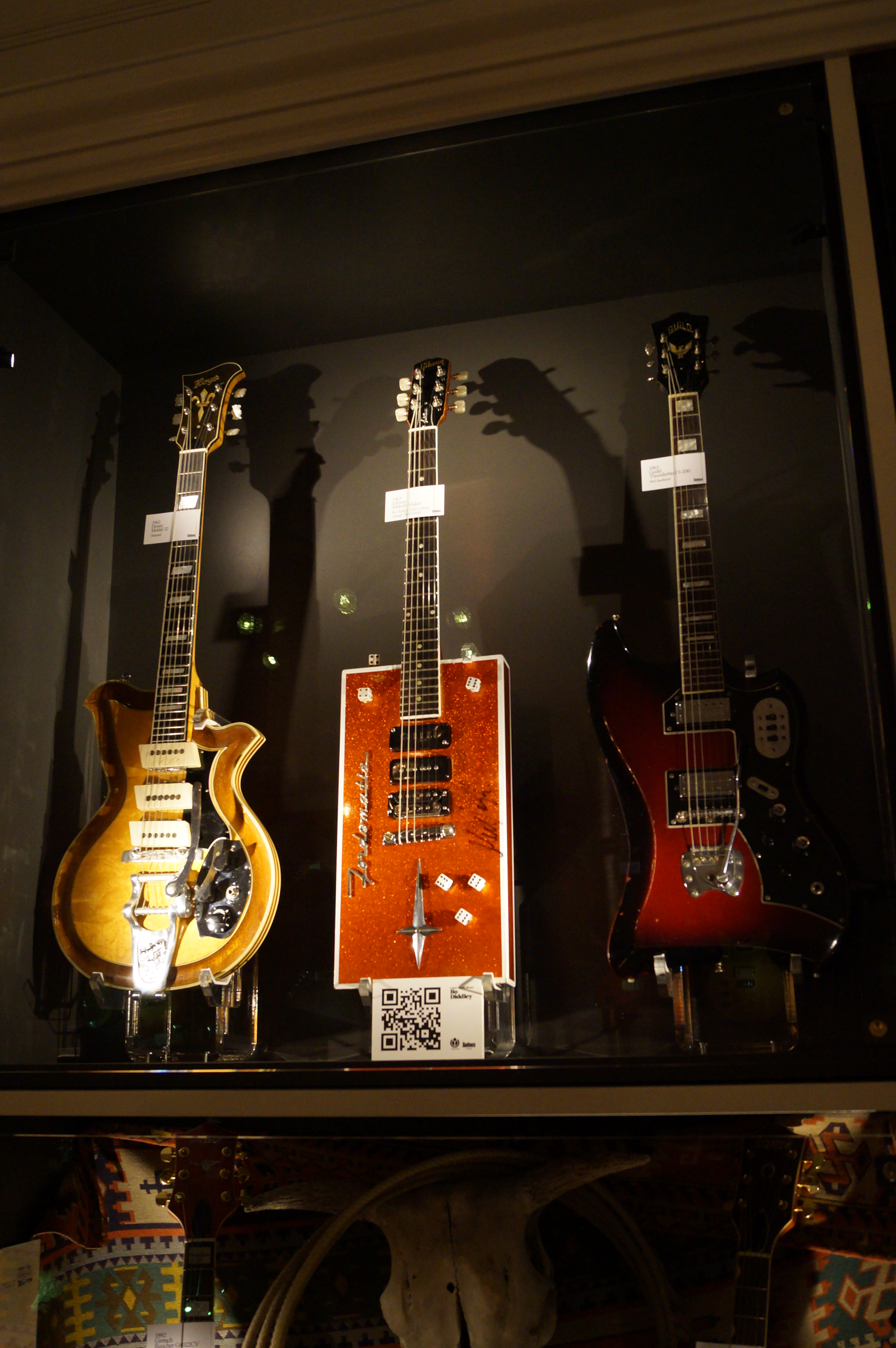 An Umepedia sign inside Guitars – The Museum.